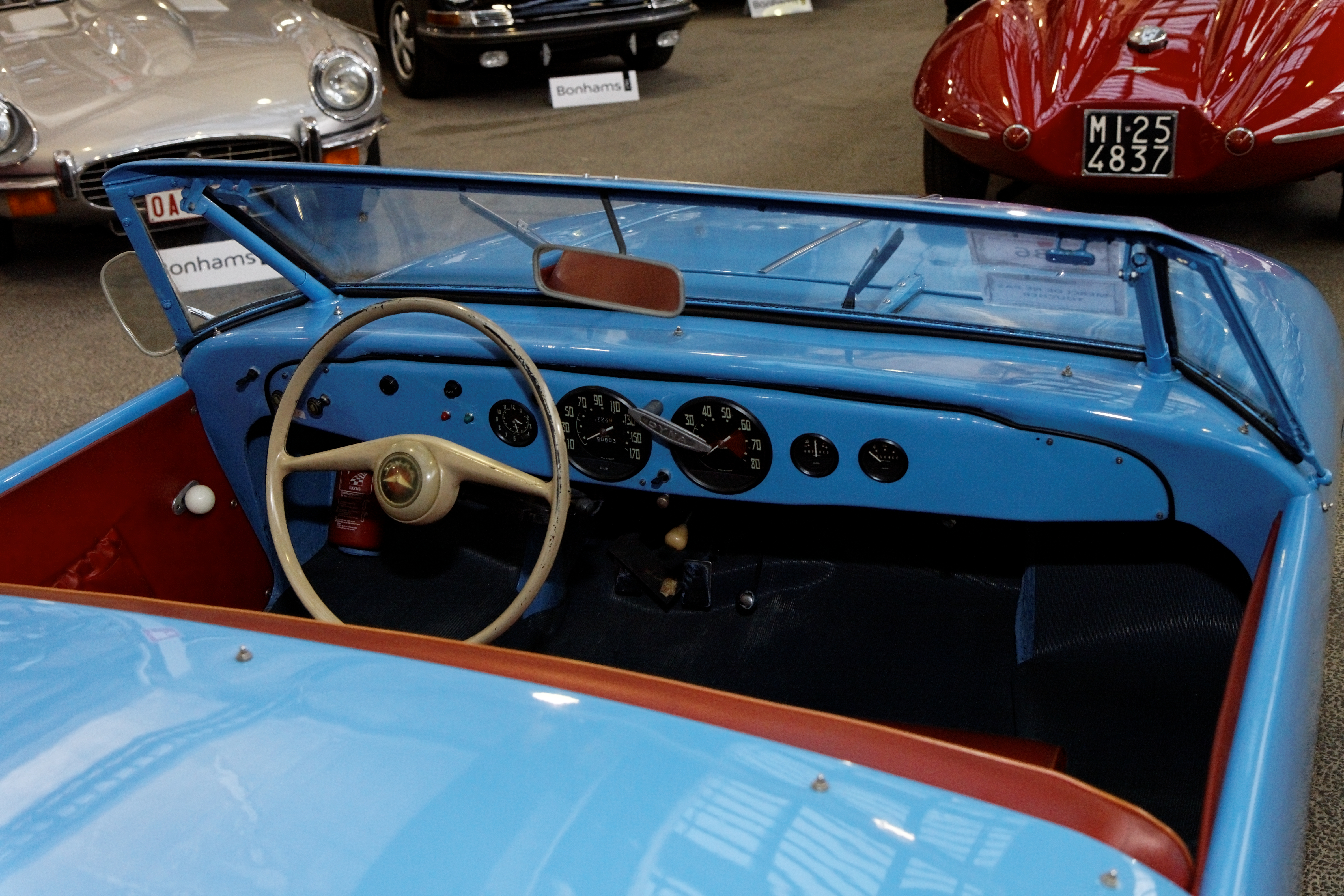 Panhard Dyna Junior Roadster